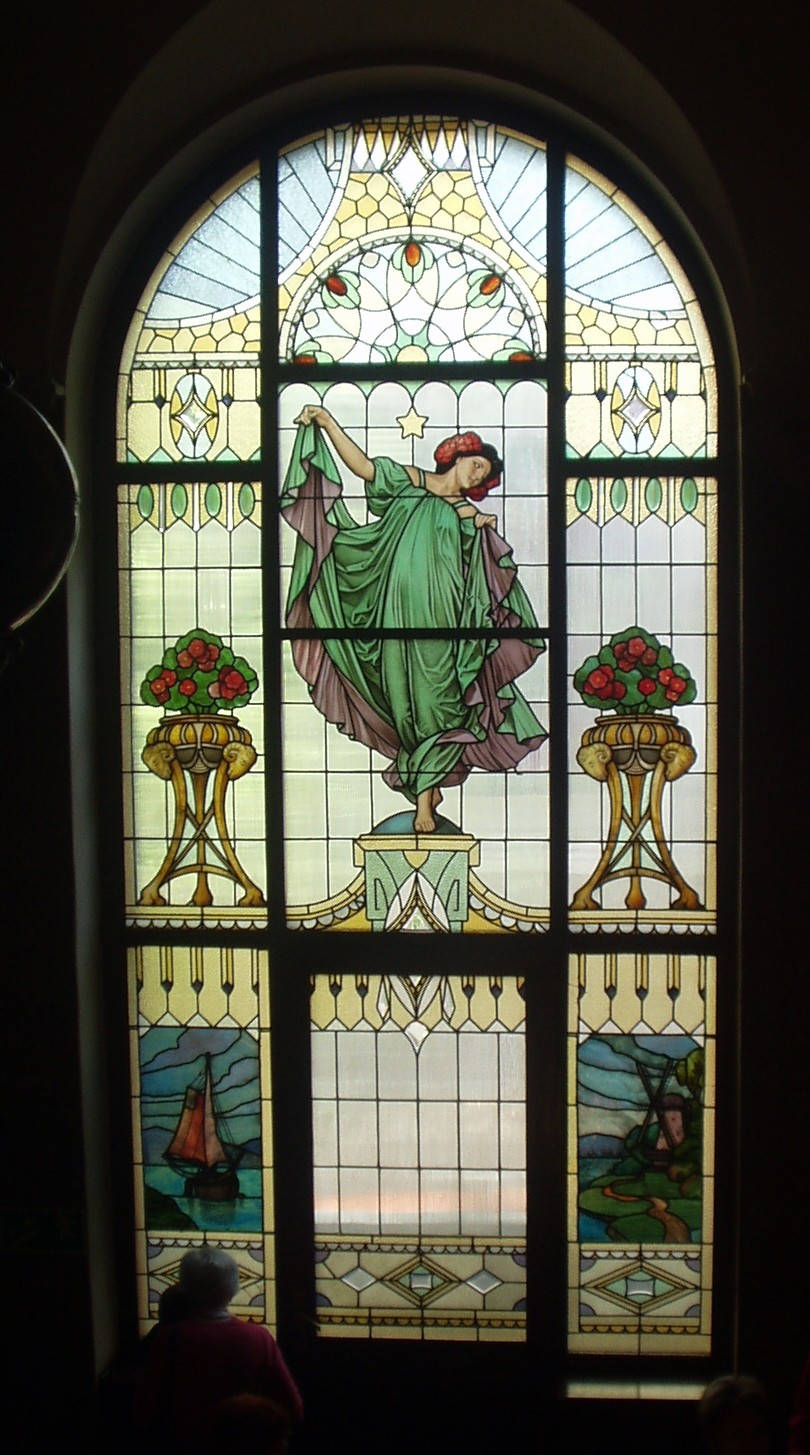 Leopold Kindermann villa, Lodz 31 Wólczańska Street